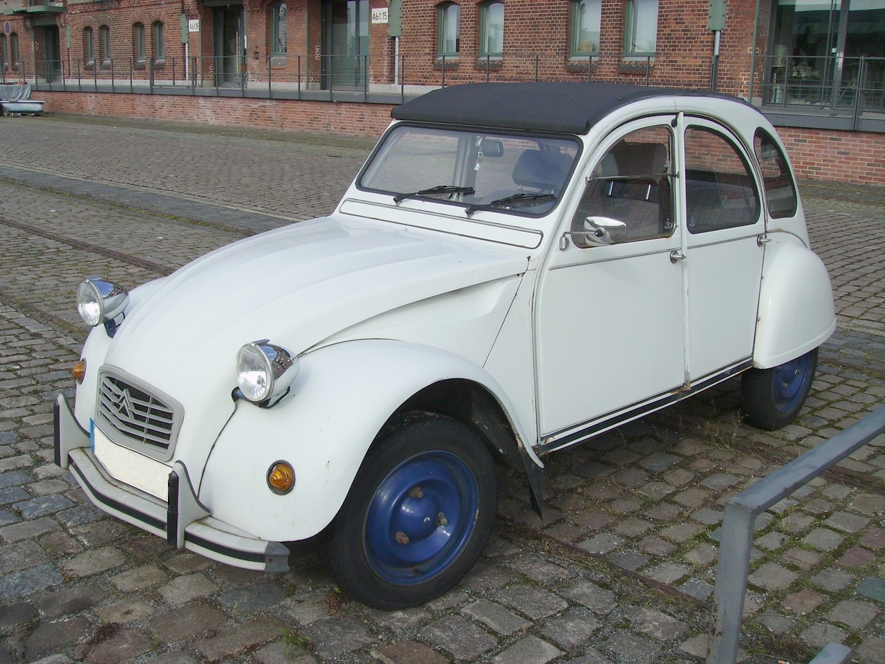 A Citroën 2CV 6